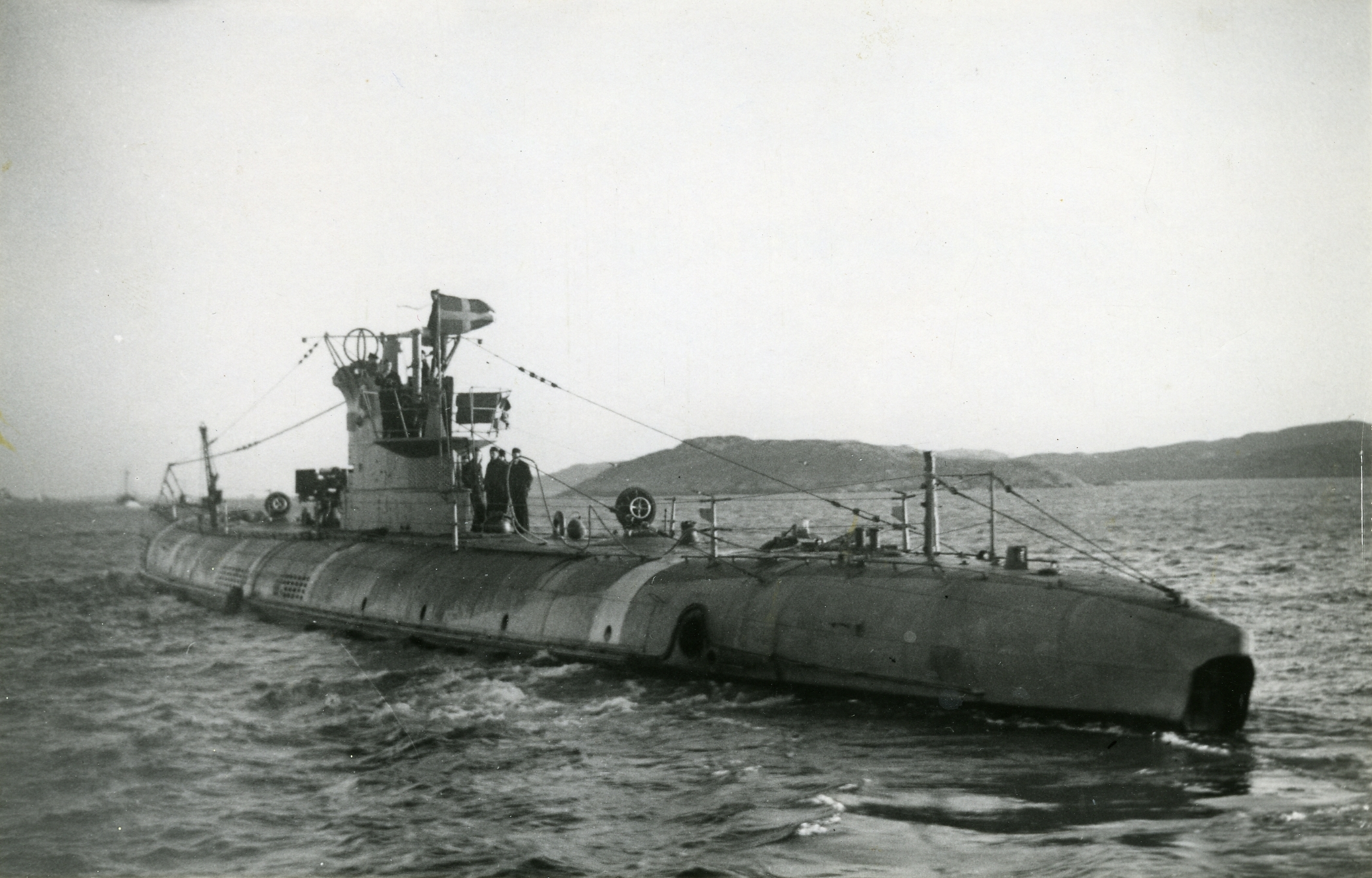 Swedish submarine HMS Draken, searching for the missing submarine HMS Ulven in 1943.